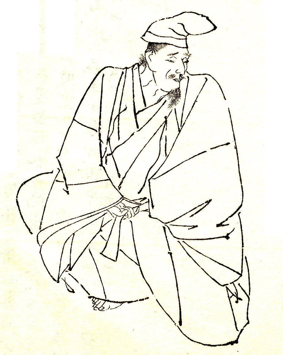 Oe no Masahira(大江匡衡) was a scholar and was a poet in the Heian Period.This picture was drawn by Kikuchi Yosai（菊池容斎） who was a painter in Japan.